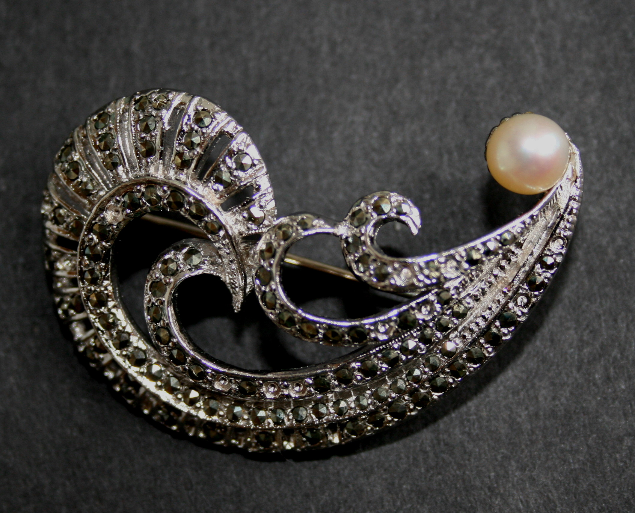 Marcasite brooch One of my favourites, I wear this frequently on a black suit